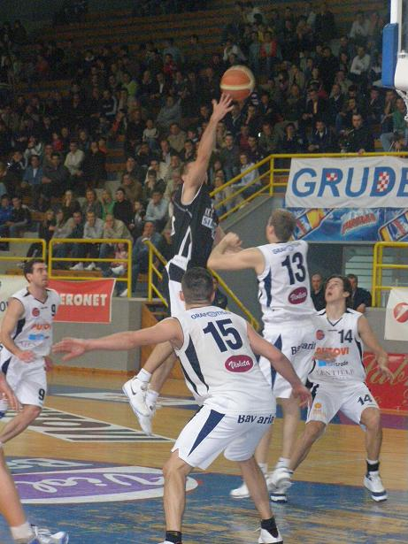 HKK Grude (whites) vs. KK Igokea Partizan (dark blue), playing in Grude